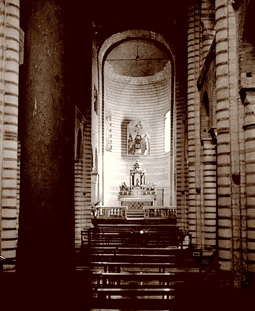 Verona, The interior of San Lorenzo